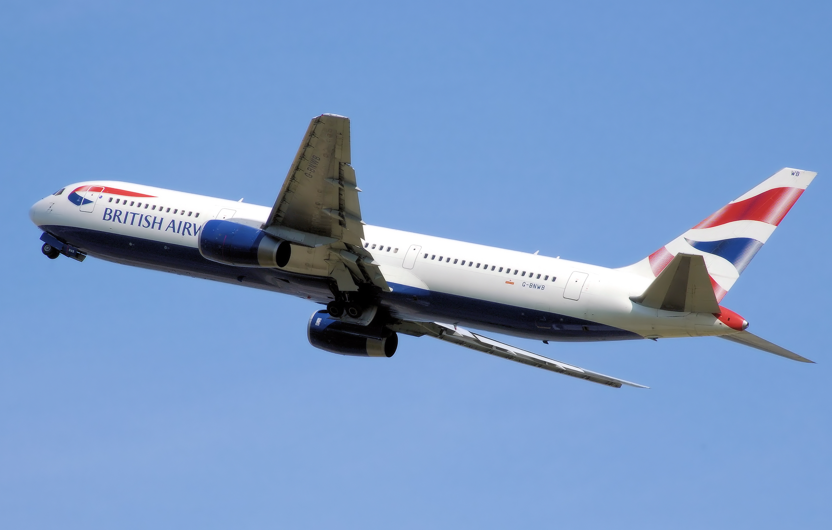 British Airways Boeing 767-300 (G-BNWB) takes off from London Heathrow Airport, England. The undercarriages have nearly retracted.